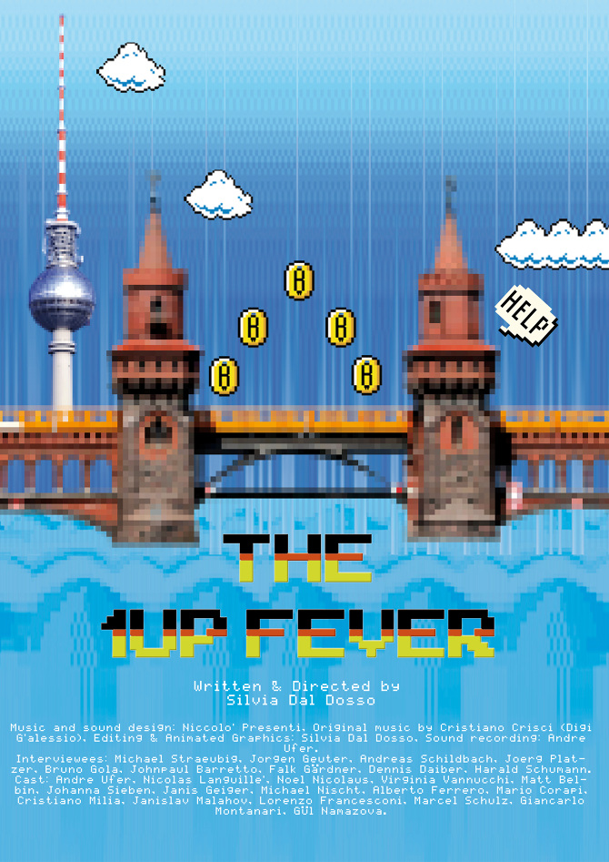 Poster for "The 1up Fever" mockumentary.